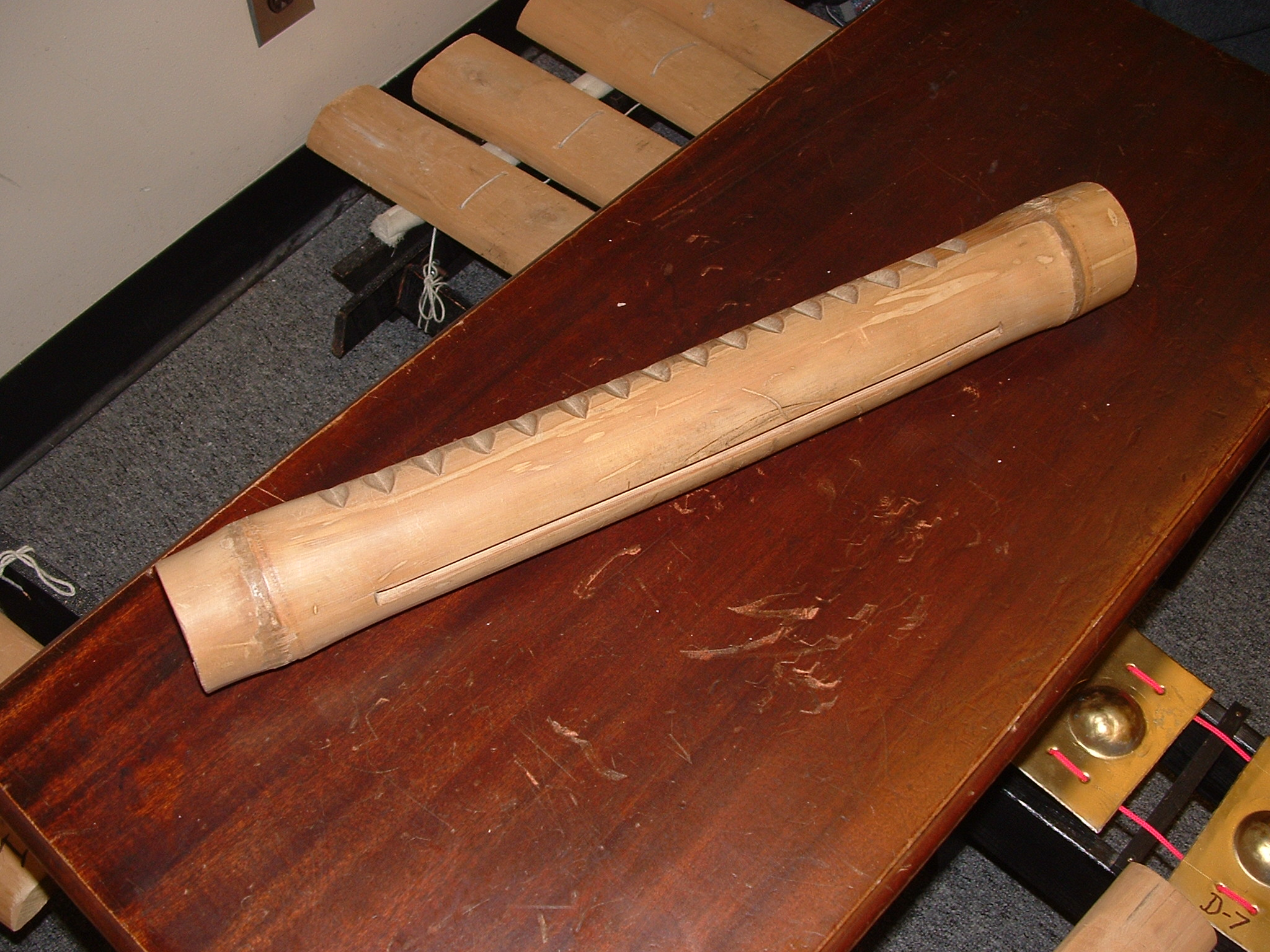 This is a Philippine bamboo scraper gong/slit drum of the Maguindanaon with a jagged edge on one side. This instrument in particular is used by Master Danongan Kalanduyan at San Francisco State to teach his kulintang class.